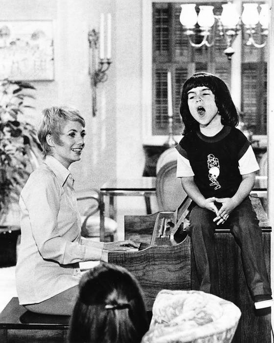 Publicity photo from the television program The Partridge Family. Pictured are Shirley Jones and Ricky Segall.